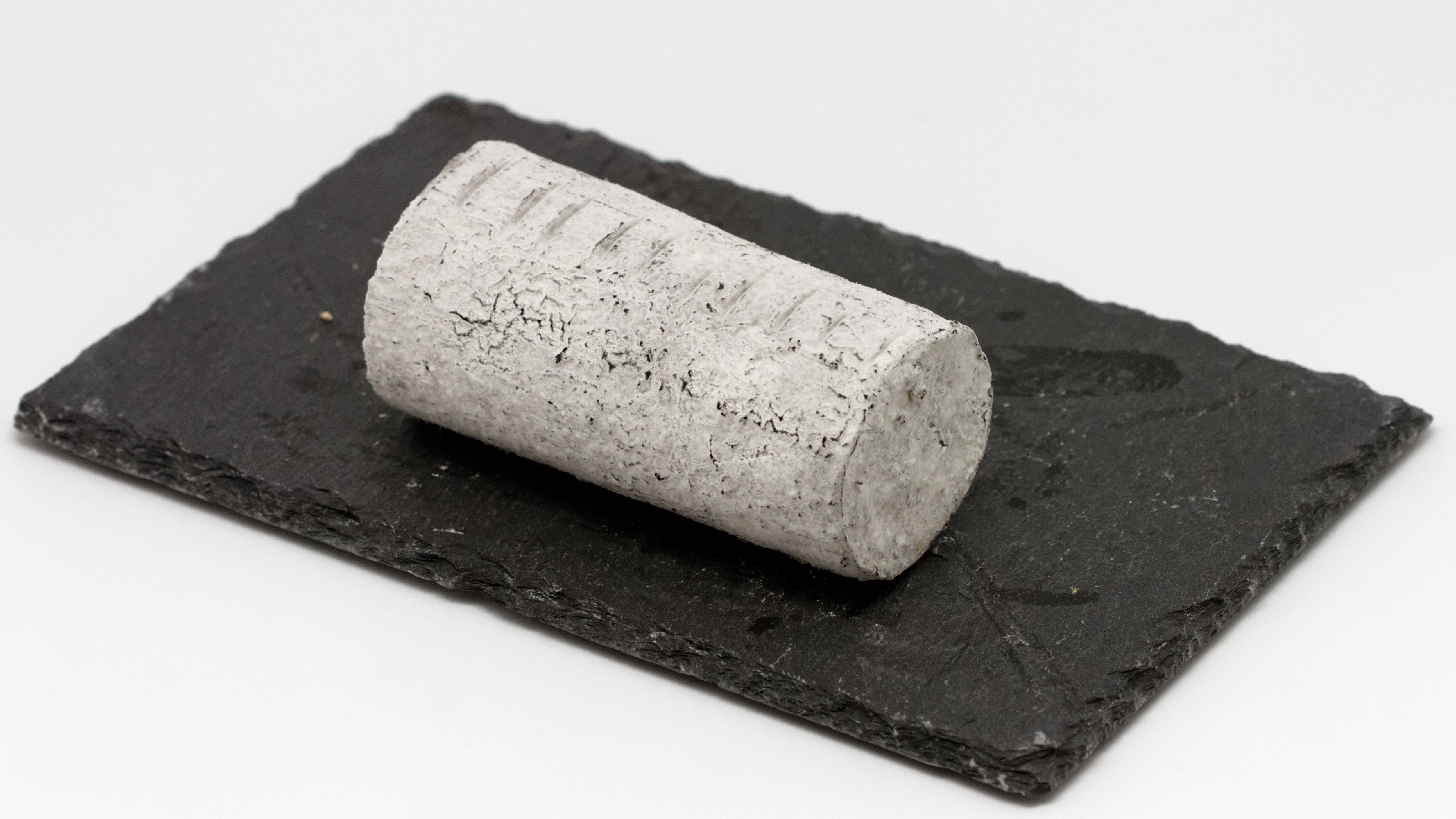 half Sainte-Maure de touraine (goat's milk cheese)